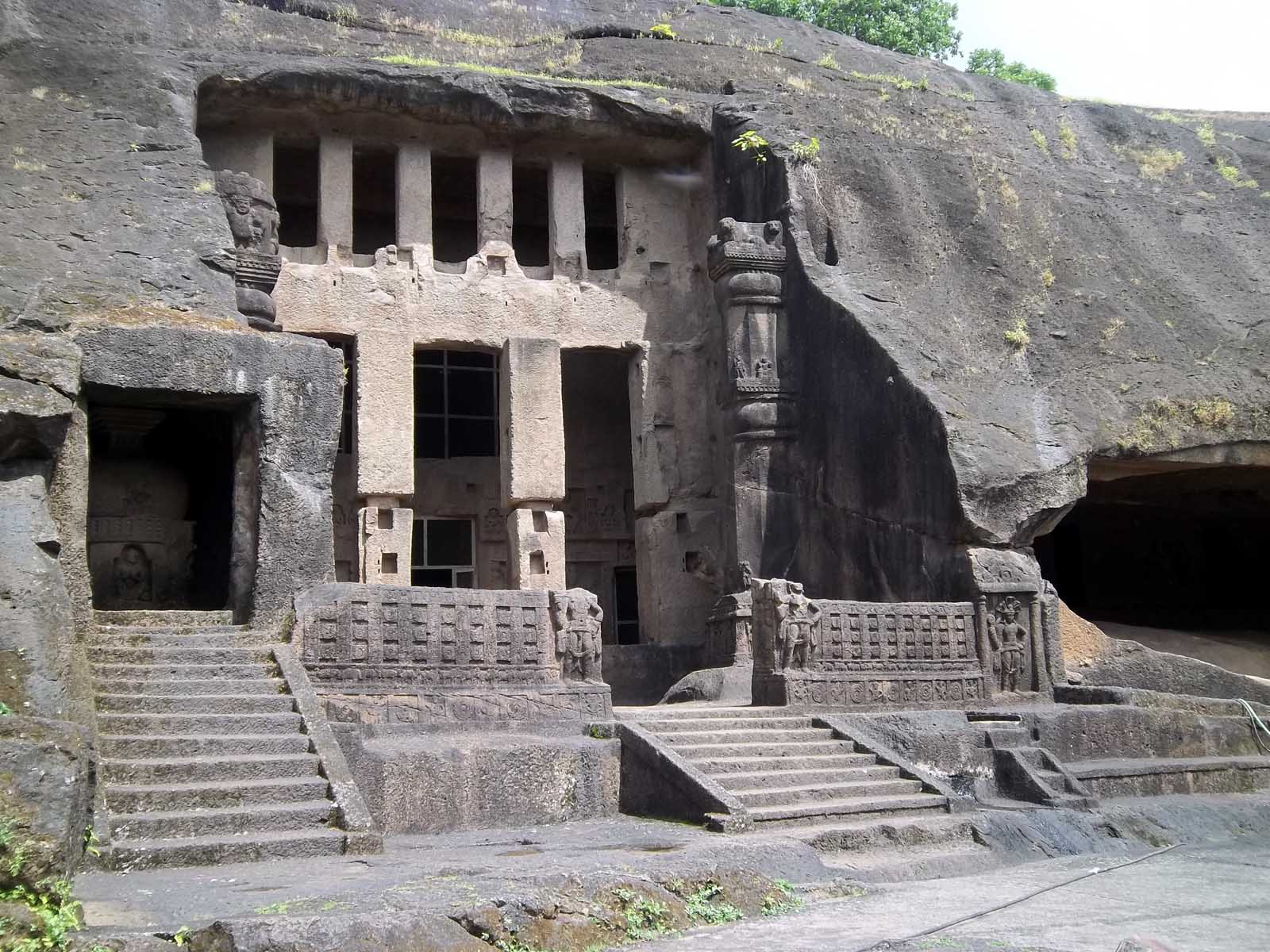 One of the oldest rock-cut monument from western Ghats of India, Kanheri Buddhist caves were carved in besalt stone. There are about 109 caves among which cave no. 3 with the carving of 7-metre tall Buddha statue is a prayer hall, i.e. Chaitya.